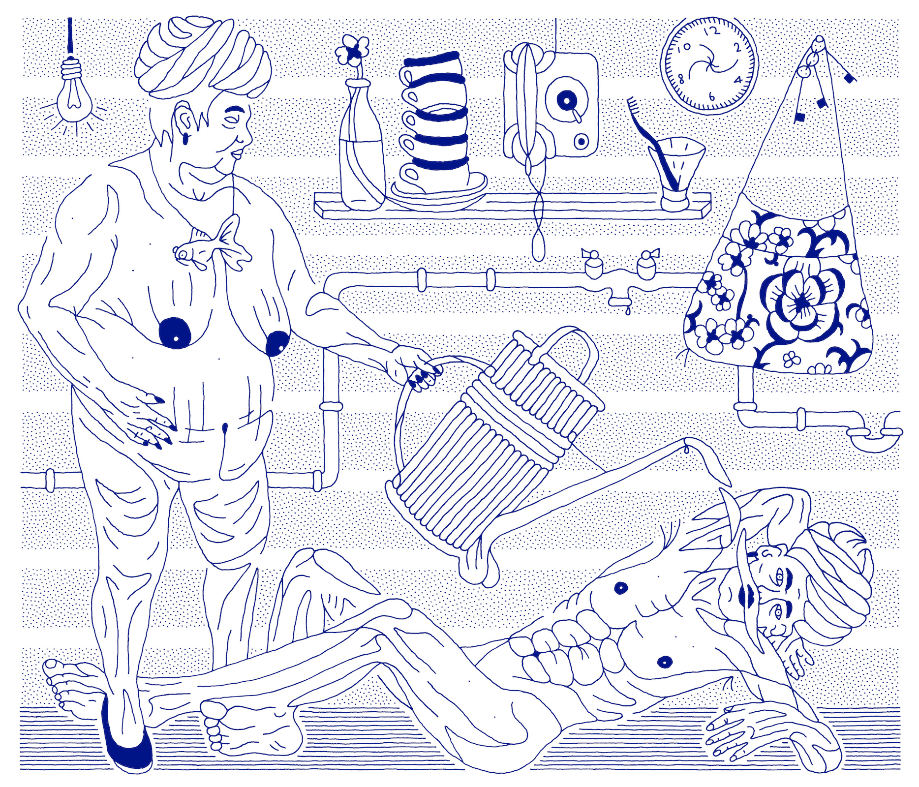 "Waterboarding of Abu Zubaydah"